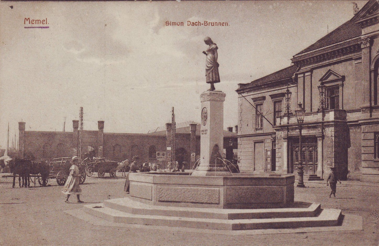 Statue of Ännchen von Tharau in Memel (Klaipėda), picture postcard sent in 1916